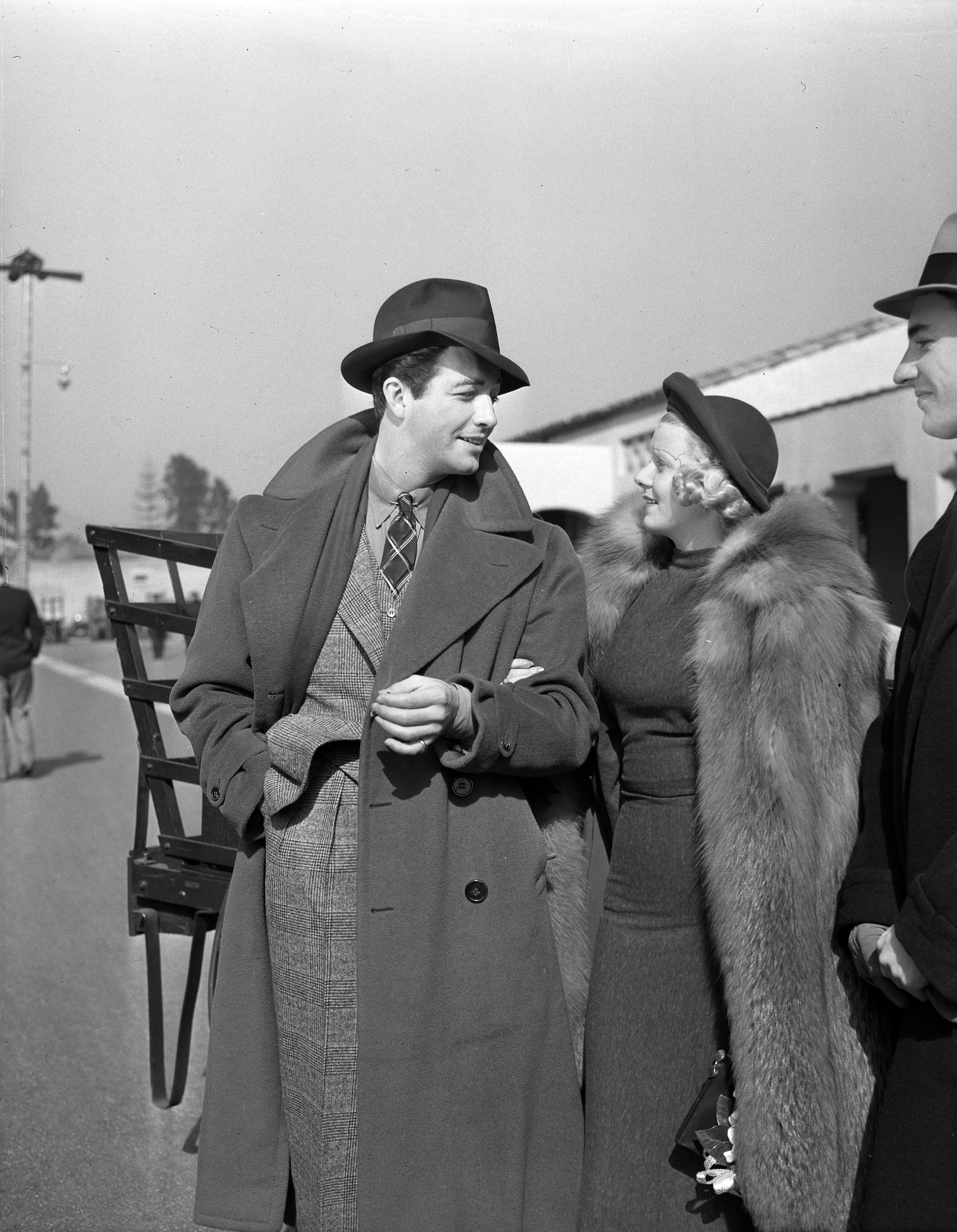 Title: Actress Jean Harlow on the arm of actor Robert Taylor, circa 1937 Subjects: Harlow, Jean, 1911-1937